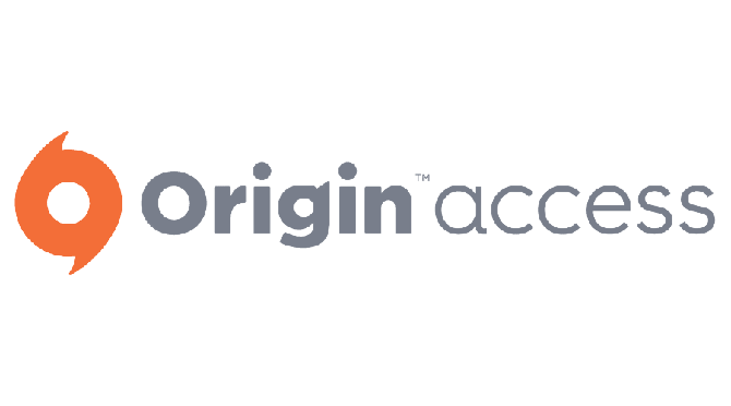 This file represents a logo.